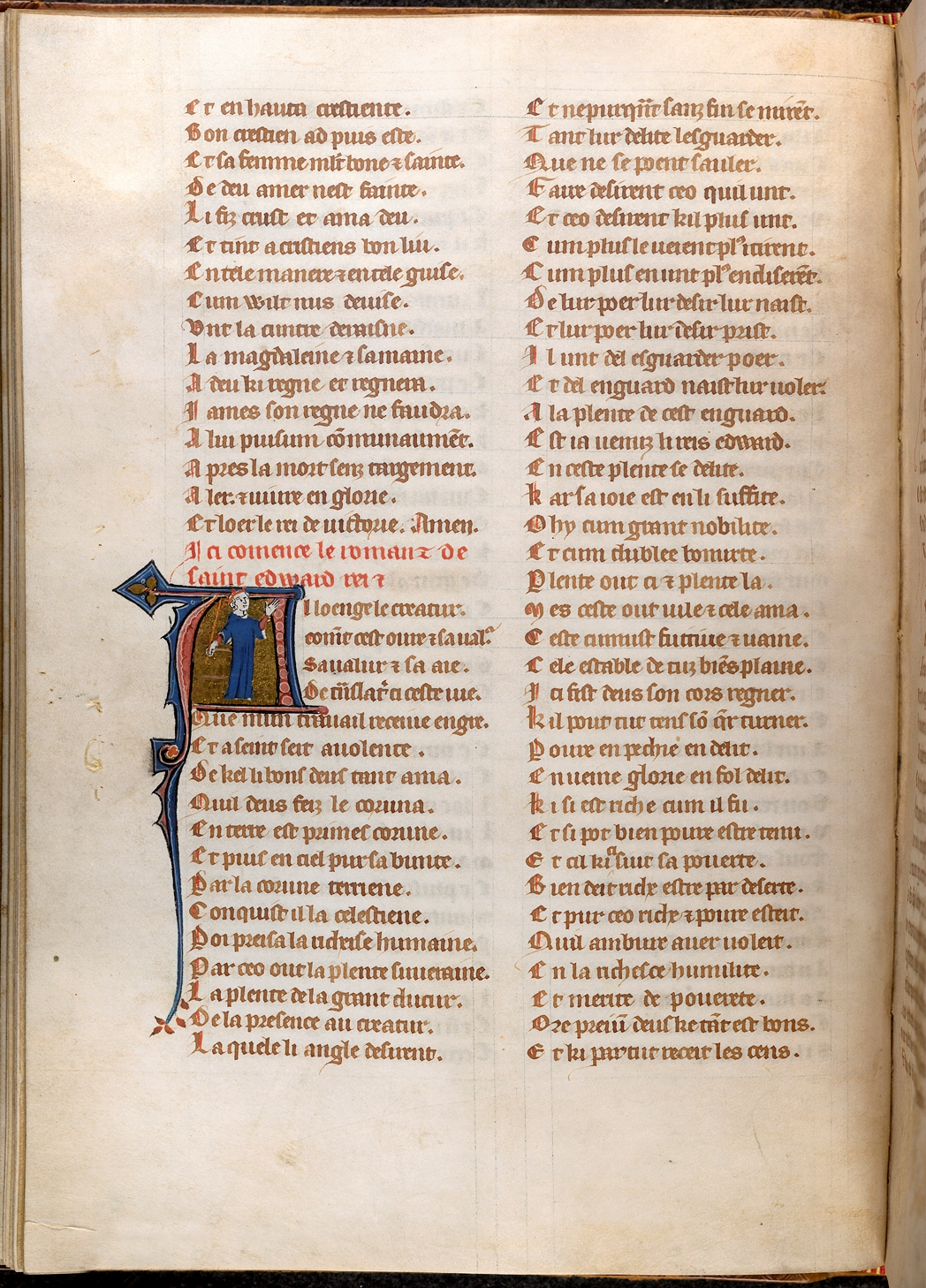 Page from the Campsey Manuscript of Anglo-Norman metrical Lives of Saints, showing miniature of Edward the Confessor, late 13th century (British Library)